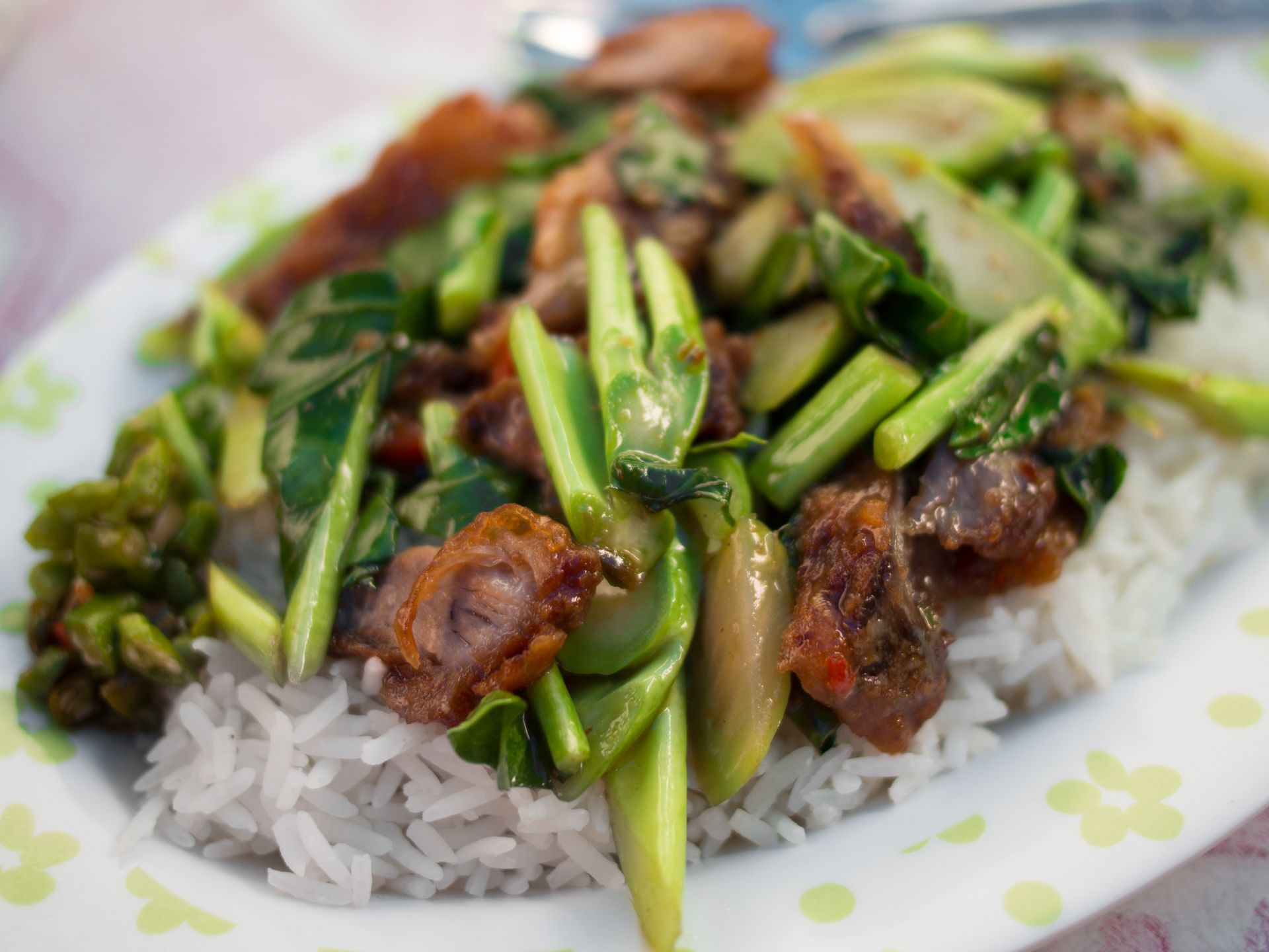 Phat khana mu krop: Thai style stir-fried (phat; Thai script: ผัด) Chinese broccoli ([phak] khana; Thai script: [ผัก]คะน้า) with crispy pork (mu krop; Thai script: หมูกรอบ). Other ingredients are garlic, oyster sauce, pepper and soy sauce. Adding in (sliced) chillies is optional. Here it is served rat khao, meaning "together with rice". As a condiment, a spoonful of "phrik nam pla" (chopped Thai chillies in fish sauce; in the left-hand corner of the image) was added for extra spiciness and flavour.